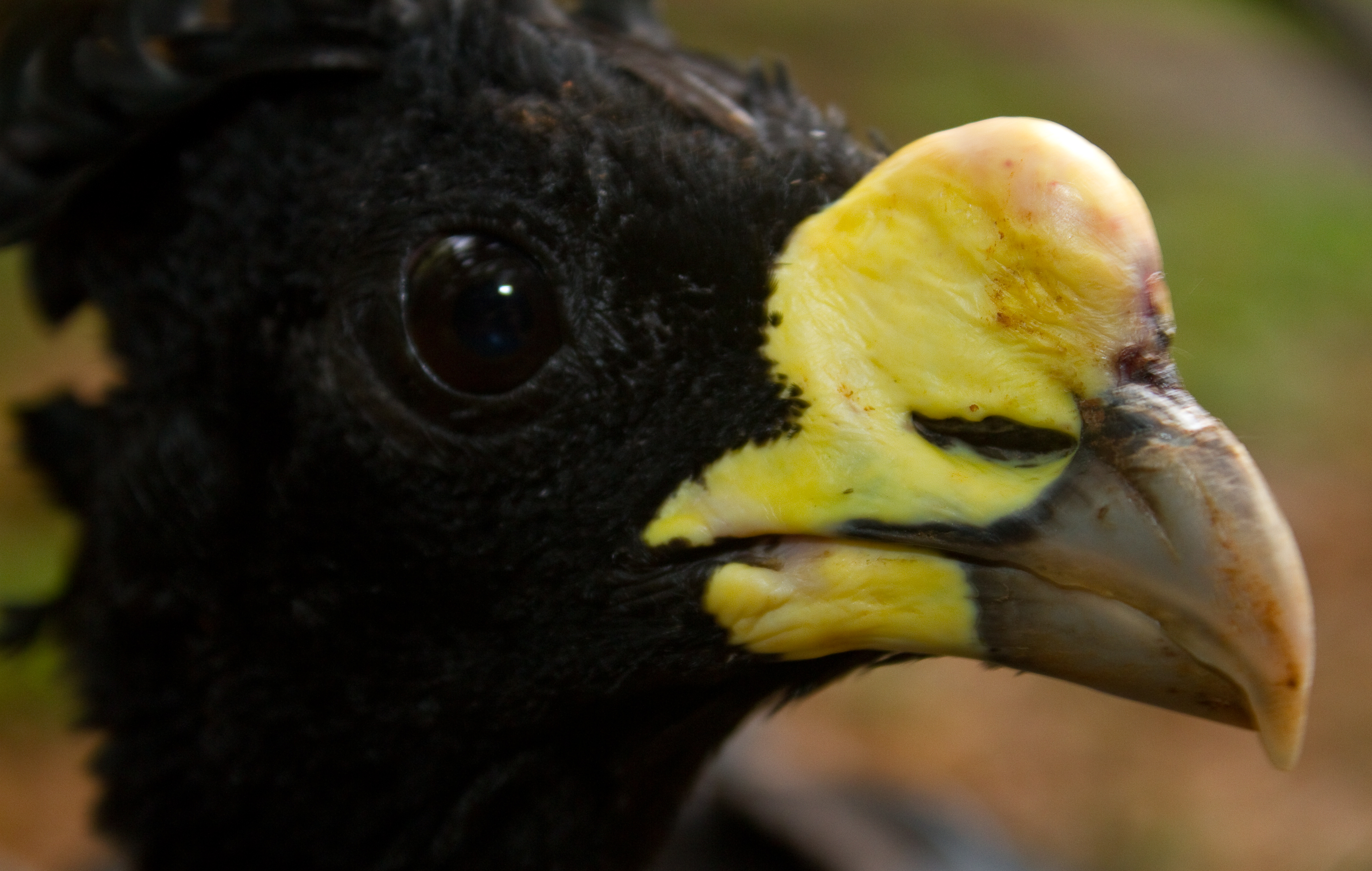 A Great Curassow at Parque Municipal Summit, Panama.